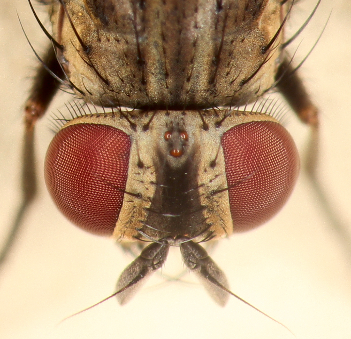 Close up image Female lesser house fly Fannia canicularis eyes.